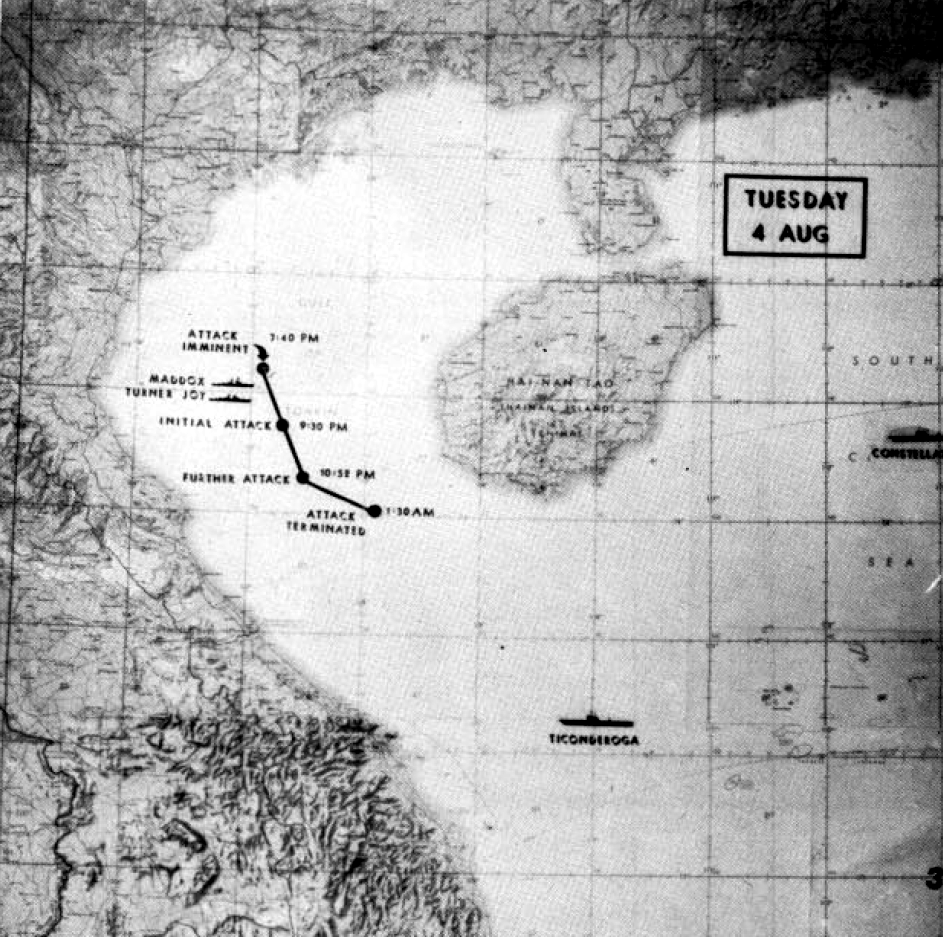 Map showing the alleged attacks of North Vietnamese torpedo boats on the U.S. Navy destroyers USS Maddox (DD-731) and USS Turner Joy (DD-951) on 4 August 1964. During an evening and early morning of rough weather and heavy seas, the destroyers received radar, sonar, and radio signals that they believed signaled another attack by the North Vietnamese navy. For some four hours the ships fired on radar targets and maneuvered vigorously amid electronic and visual reports of enemies. Despite the U.S. Navy's claim that two attacking torpedo boats had been sunk, there was no wreckage, bodies of dead North Vietnamese sailors, or other physical evidence present at the scene of the alleged engagement. At 01:27, Washington time, Captain Herrick of the Maddox sent a cable in which he acknowledged that the second attack may not have happened and that there may actually have been no Vietnamese craft in the area: "Review of action makes many reported contacts and torpedoes fired appear doubtful. Freak weather effects on radar and overeager sonarmen may have accounted for many reports. No actual visual sightings by Maddox. Suggest complete evaluation before any further action taken".